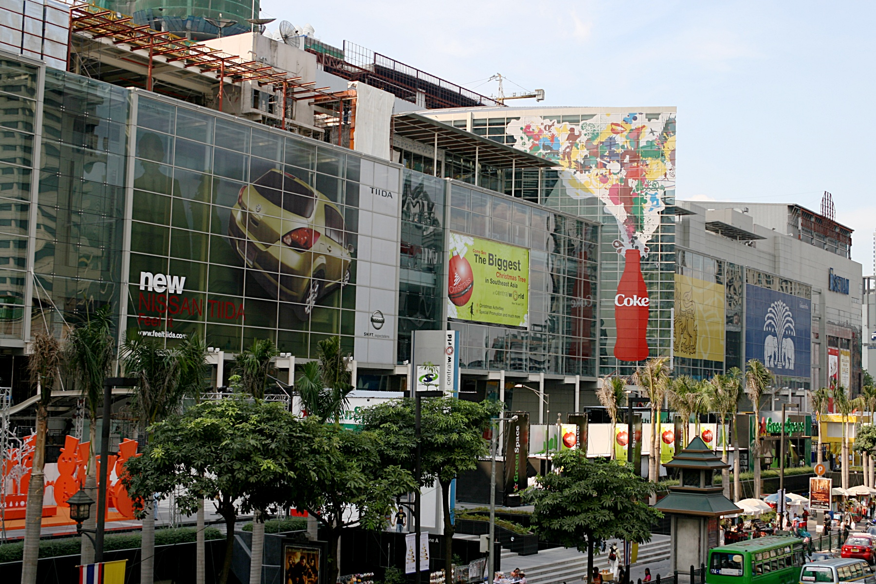 CentralWorld, Pathum Wan, Bangkok.